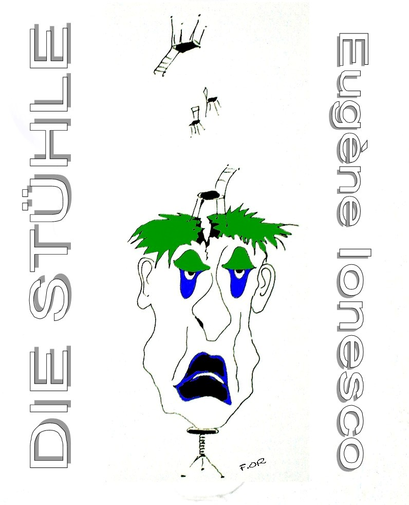 Poster for drama performance Les Chaises